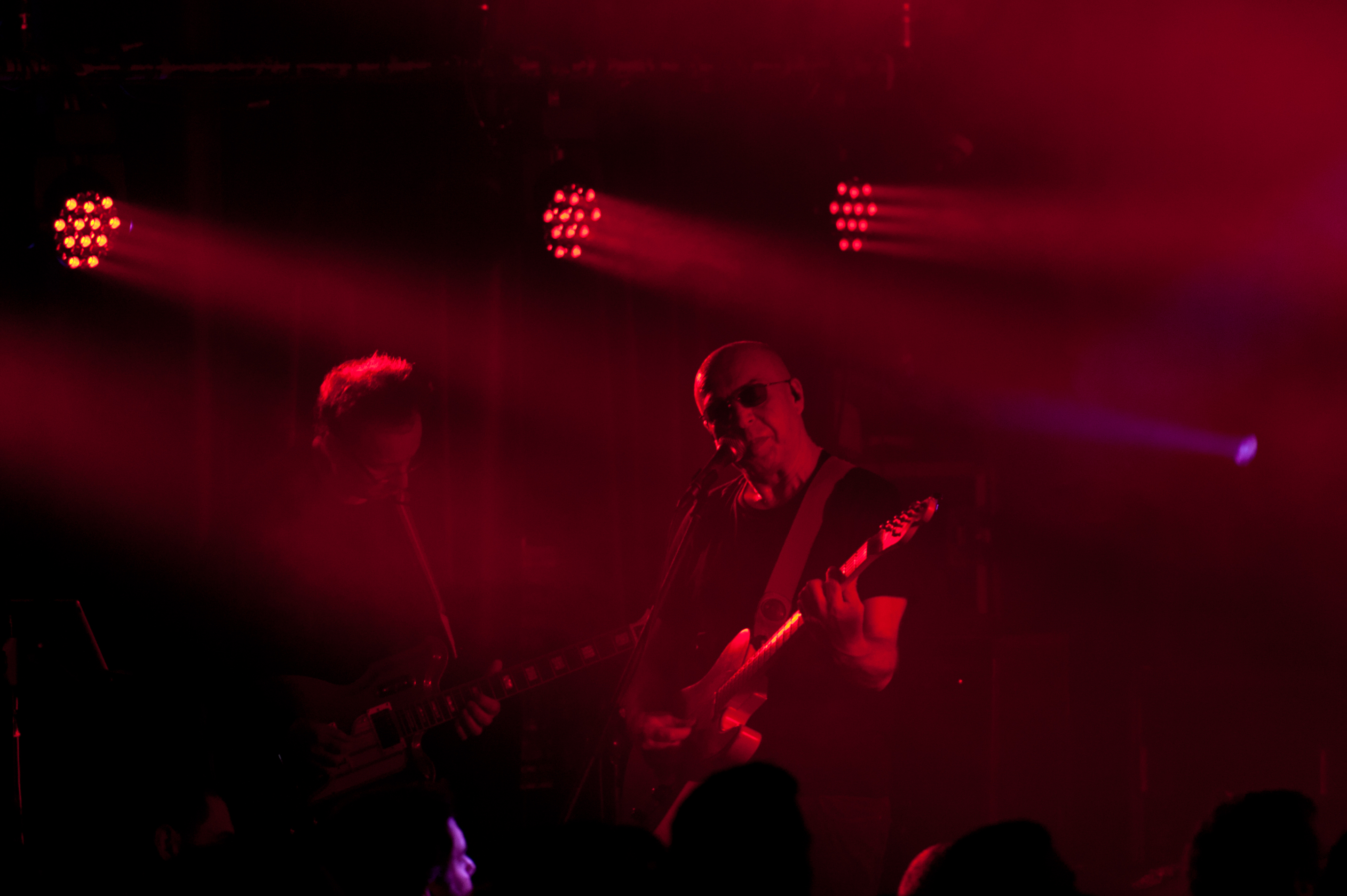 Minimal Compact, 2012 reunion in Tel Aviv